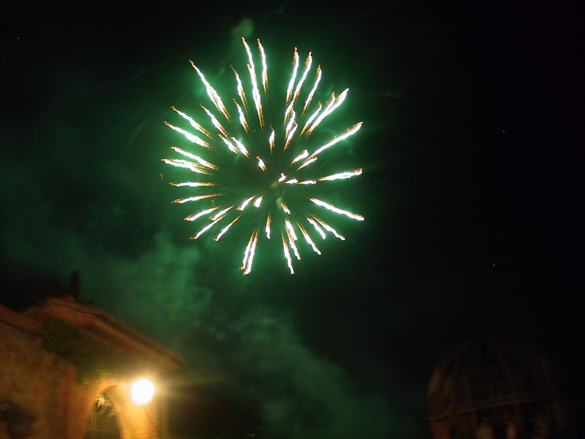 Fireworks in Vinci, FI, Italy.